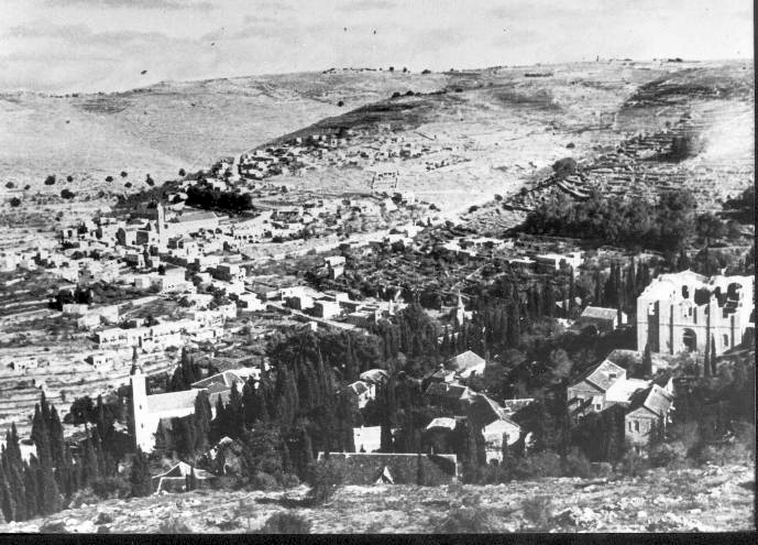 Ein Kerem 1948